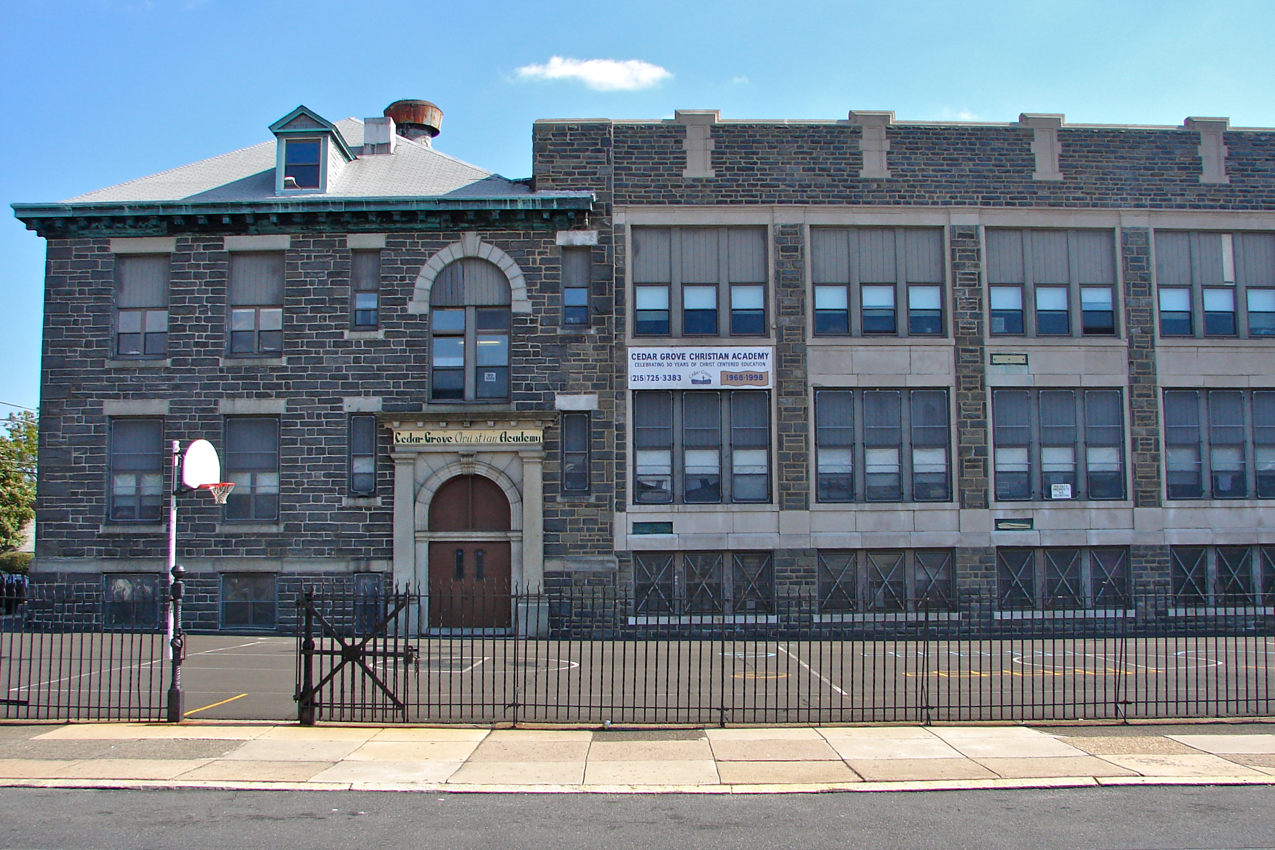 Lawndale School in Philadelphia on the NRHP since November 18, 1988. At 600 Hellerman Street in the Lawndale neighborhood of NE Philly. Now houses the Cedar Grove Christian Academy.